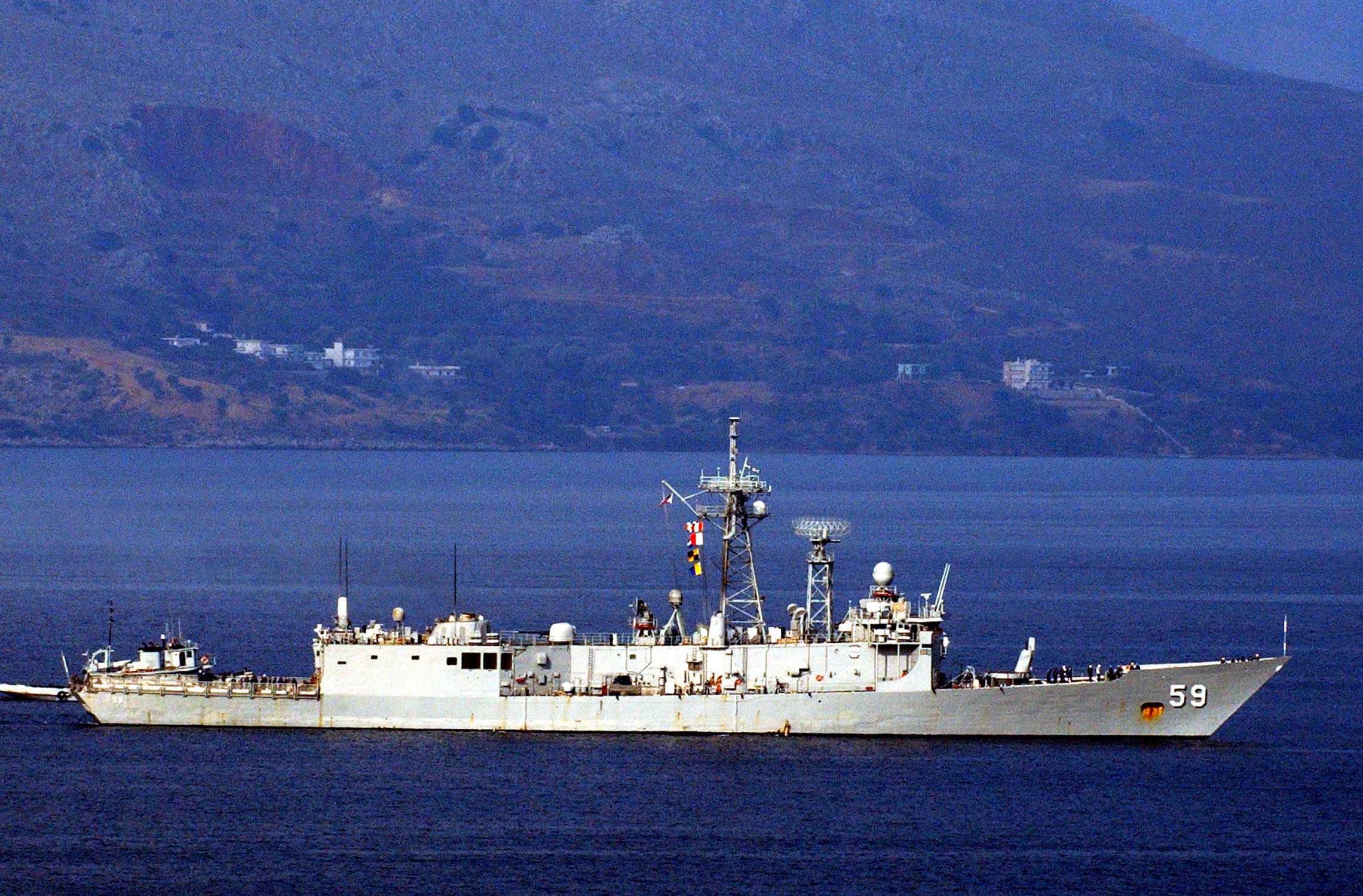 Souda Bay, Crete (Aug. 26, 2002) — The guided missile frigate USS Kauffman (FFG-59) arrives for a brief port visit to Souda Bay. Kauffman is homeported in Mayport, Fla., and is operating on a six month deployment in support of Operation Enduring Freedom.